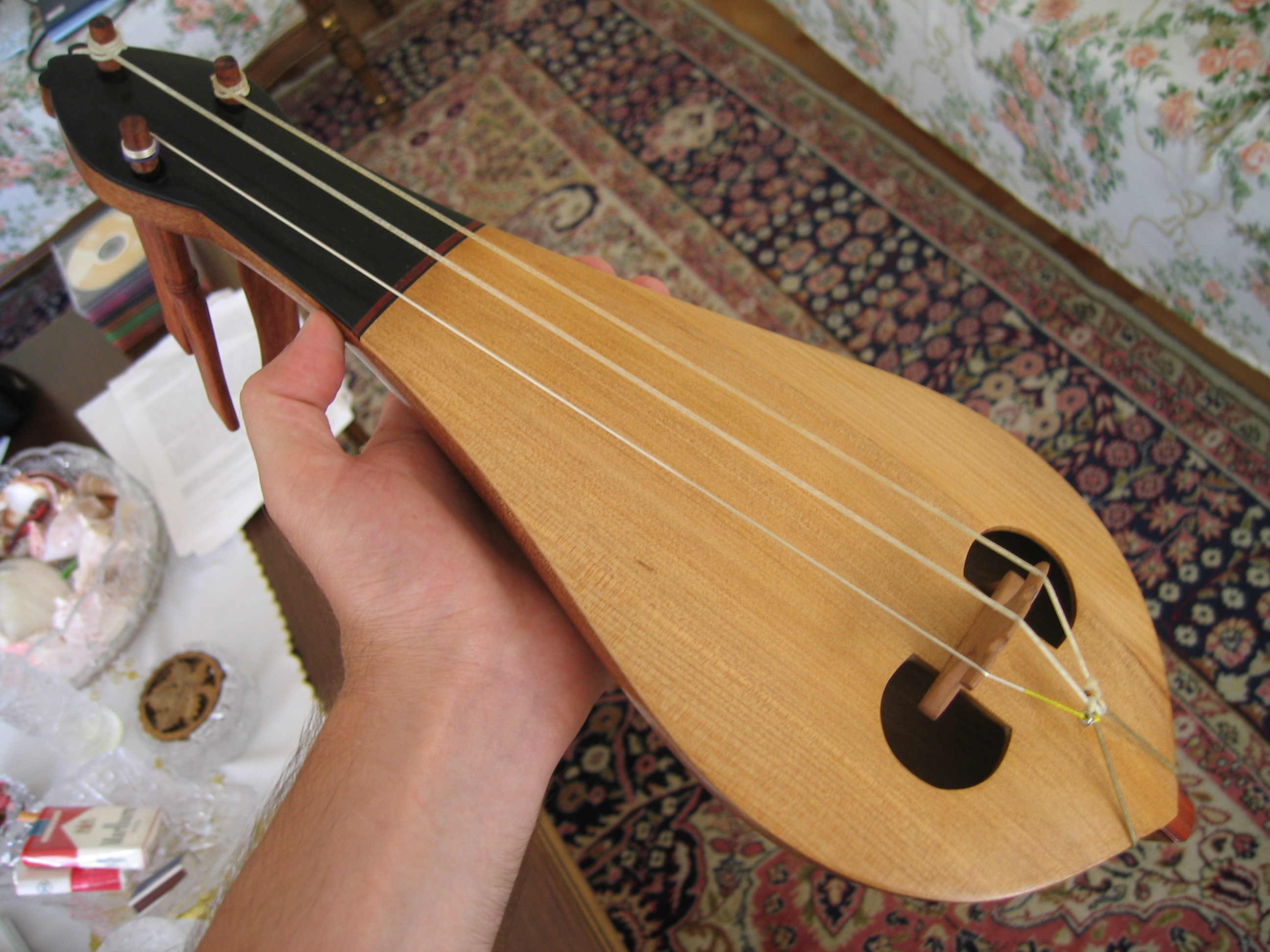 Pictures of Kemence at different stages of making...